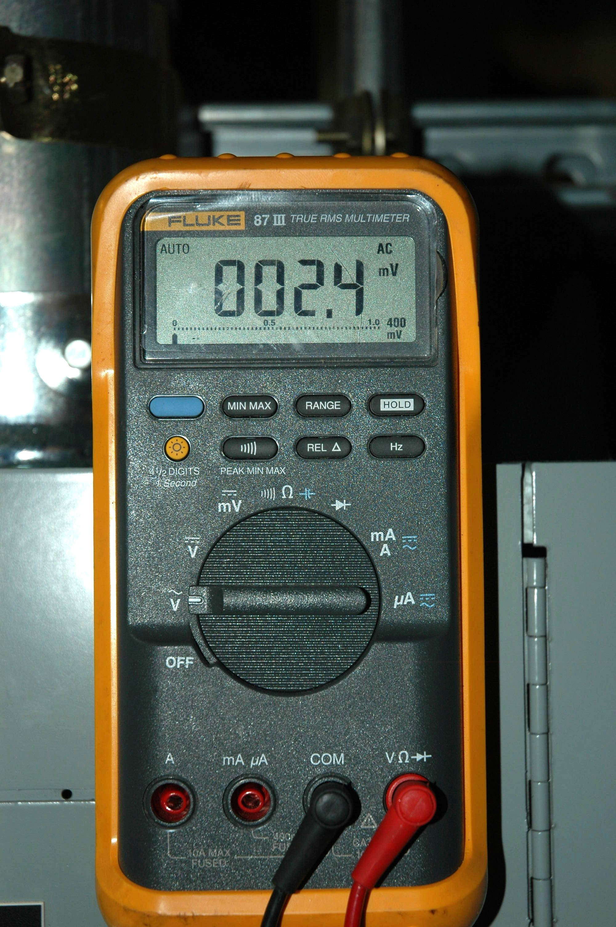 This is a V-O-M (Volt - Ohm - Meter) or Multimeter. It will accurately display voltage and resistance (in ohms) when used properly. The one pictured will also display frequency, capacitance and amps. It can provide an audible signal for continuity and test delicate PN junctions like those found in diodes.